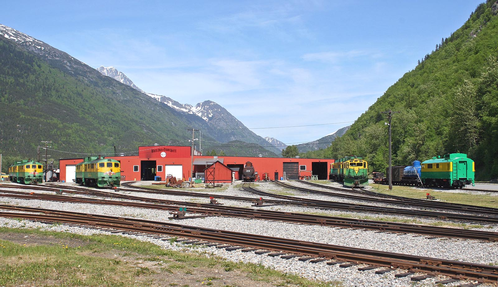 White Pass and Yukon Route shops in Skagway, Alaska; taken June 9, 2006.